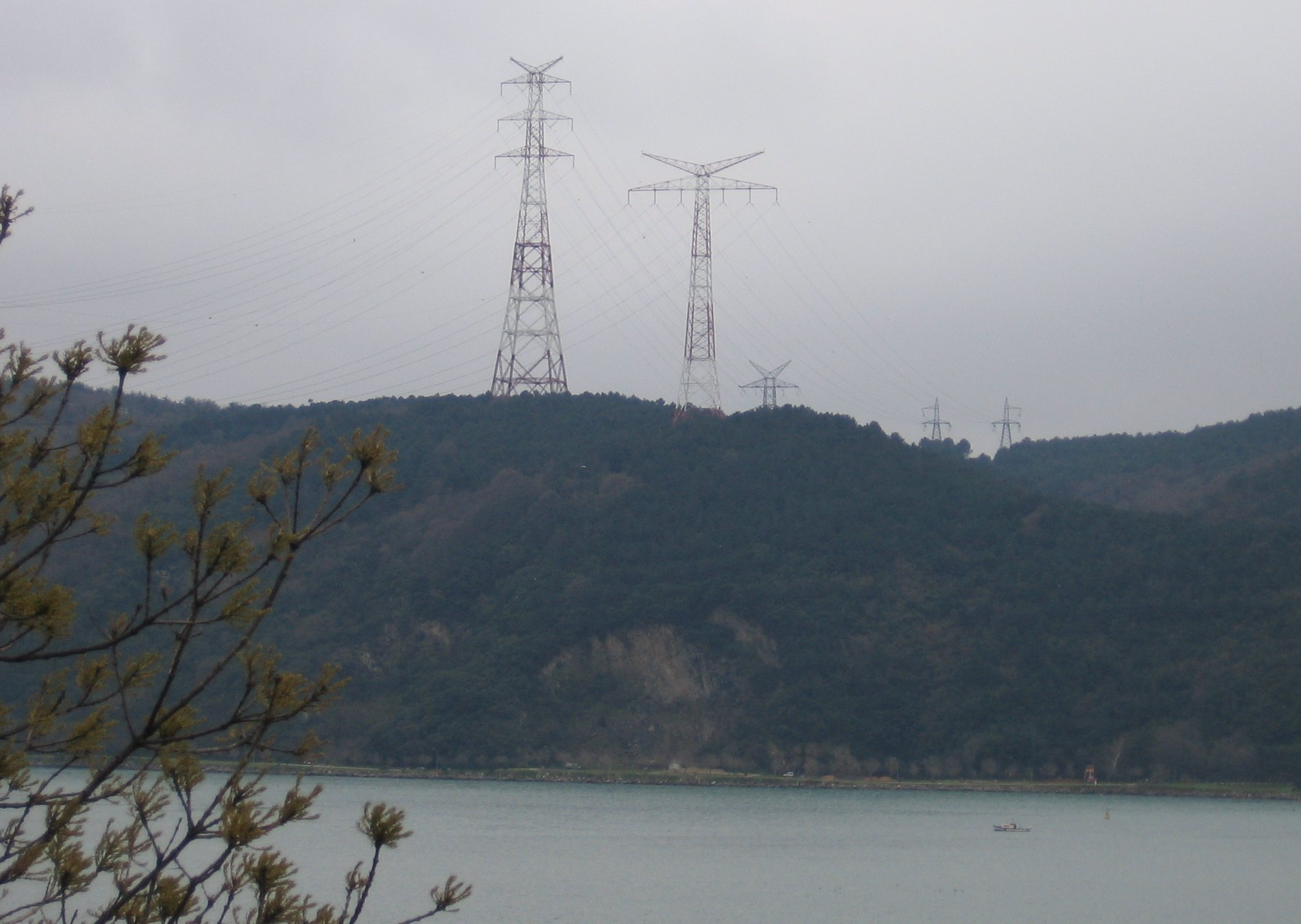 380 kV Bosphorous crossings - looking E from Sarıyer